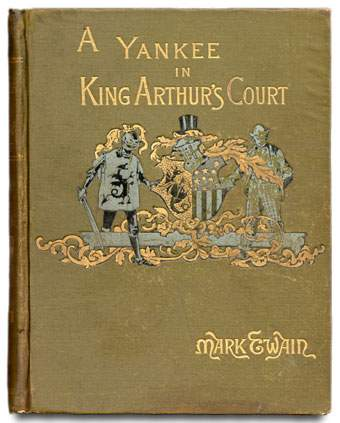 Cover of the book «A Connecticut Yankee in King Arthur’s Court» by Mark Twain, 1889